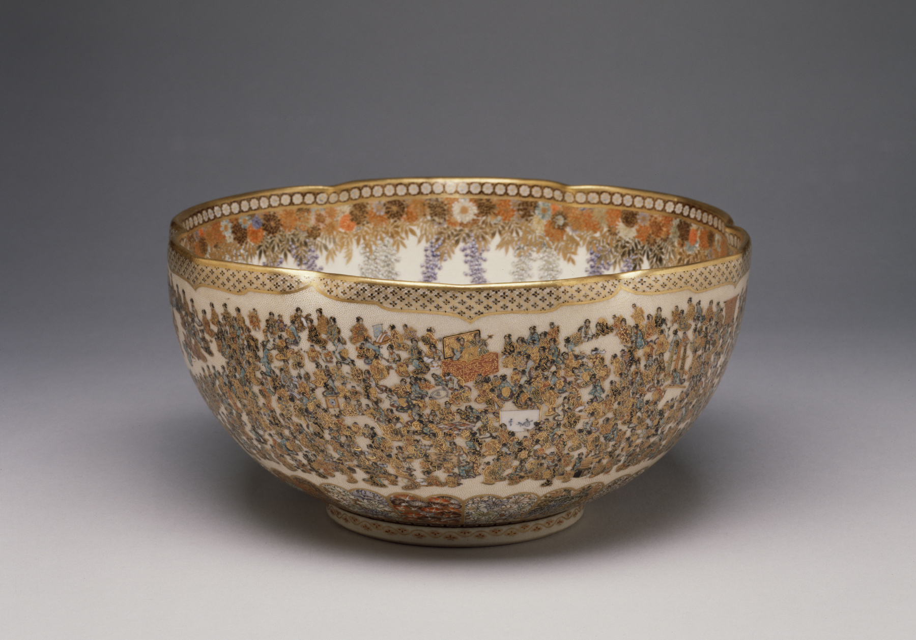 This bowl was decorated by Yabu Meizan at his studio in Osaka. The exterior is decorated with an intricate pattern of hundreds of women engaged in traditional arts, crafts, and cultural practices. They are depicted in multicolored enamels that have been fired onto the bisque surface of this six-lobed foliate bowl. At the base, panels of flowrs ring the bowl. The panels contain approximately twenty identifiable species of flowers including peonies,haydrangea, wisteria, morning glories, three types of camelias, lilies, etc.. The interior features a band of wisteria ringing the rim with blossoms hanging down into the bowl's interior. Yabu Meizan's studio would purchase fired bisque stonewares from the Chinjyukan kiln in Kagoshima and from the Kinkozan kiln in Kyoto. They would then transfer designs to the stoneware surfaces from pattern books held in the studio.